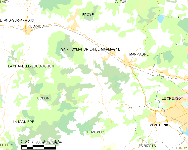 Map of French municipality